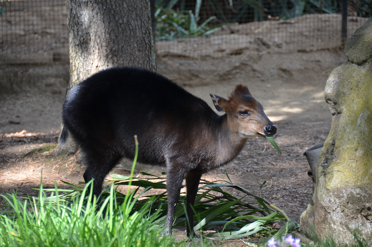 Black duiker from side view.